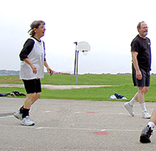 This was taken early afternoon of September 29, 2006 in Madison, WI. The occasion was the annual Bouchercon World Mystery Convention basketball game. It is open to anyone who wishes to play.